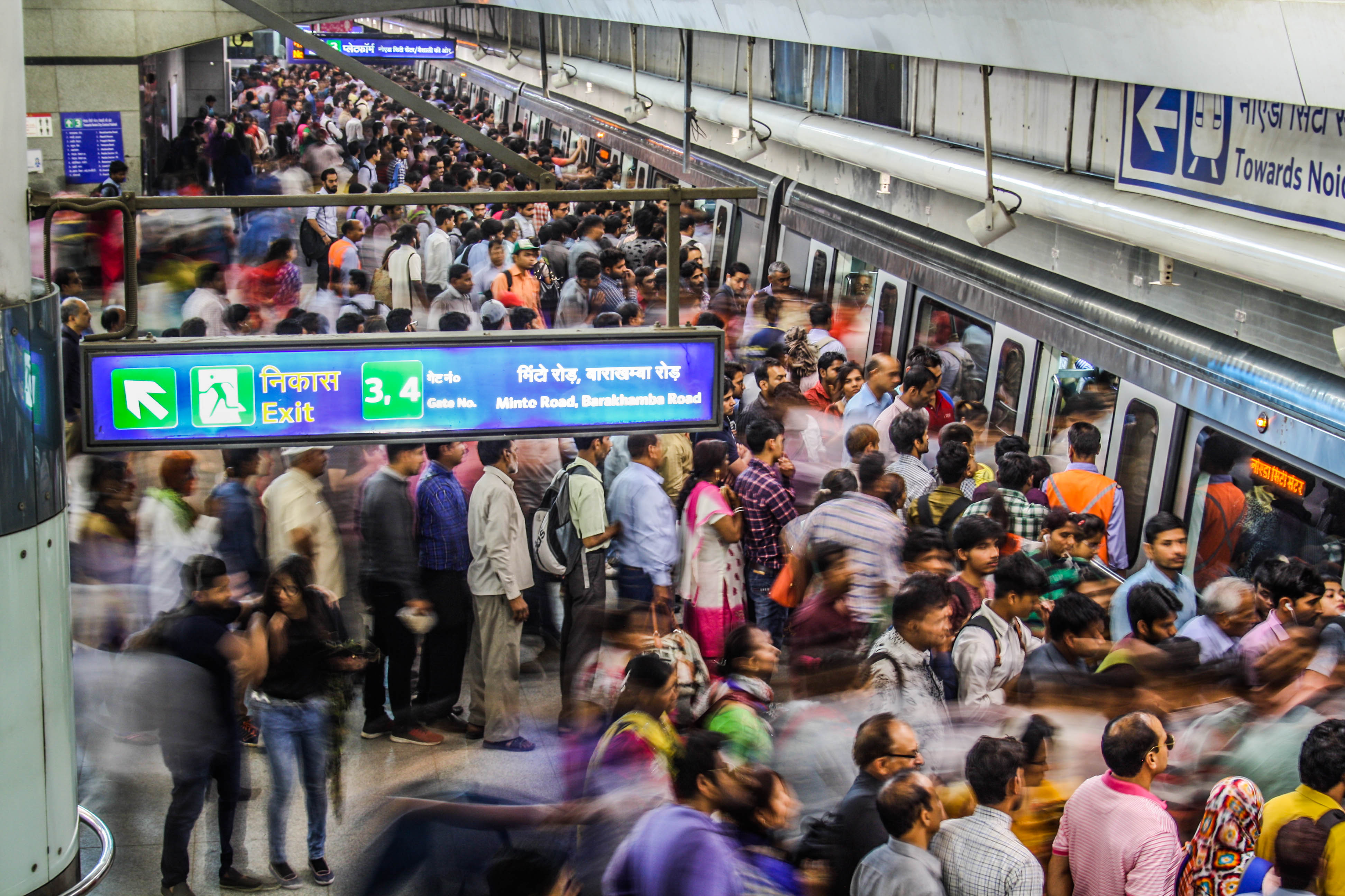 the photo shows the crowd in weekdays in the metro station. wikipedia can use this photo to show case the dencely populated metro stations in delhi.